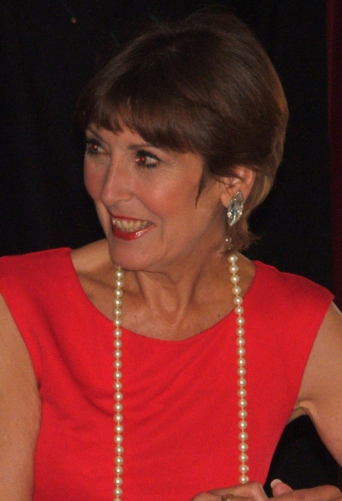 Anita Harris